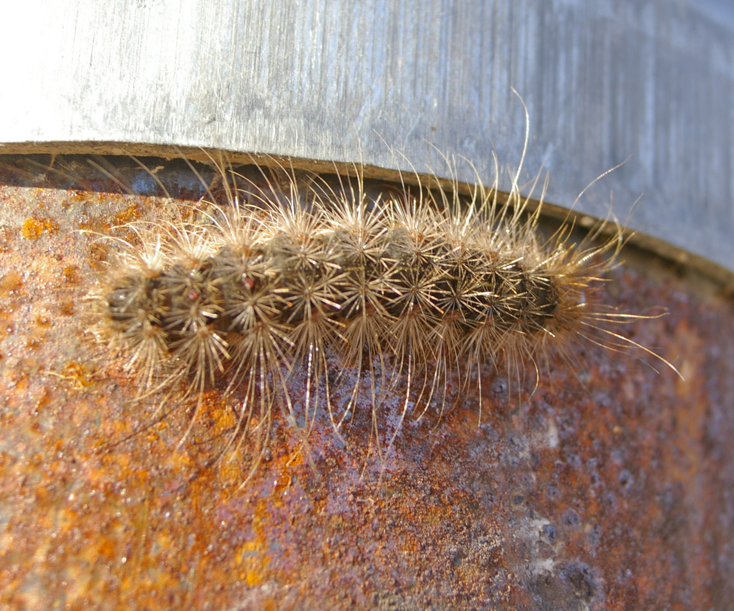 Leptocneria reducta (White Cedar Moth) caterpillar which feeds from Melia Azedarach var.australasica (White Cedar) which is native to New Guinea, New South Wales and Queensland and is closely related to Melia Azedarach (Chinaberry, Cape Lilac and White Cedar) originated from the Himalaya region[1][2].